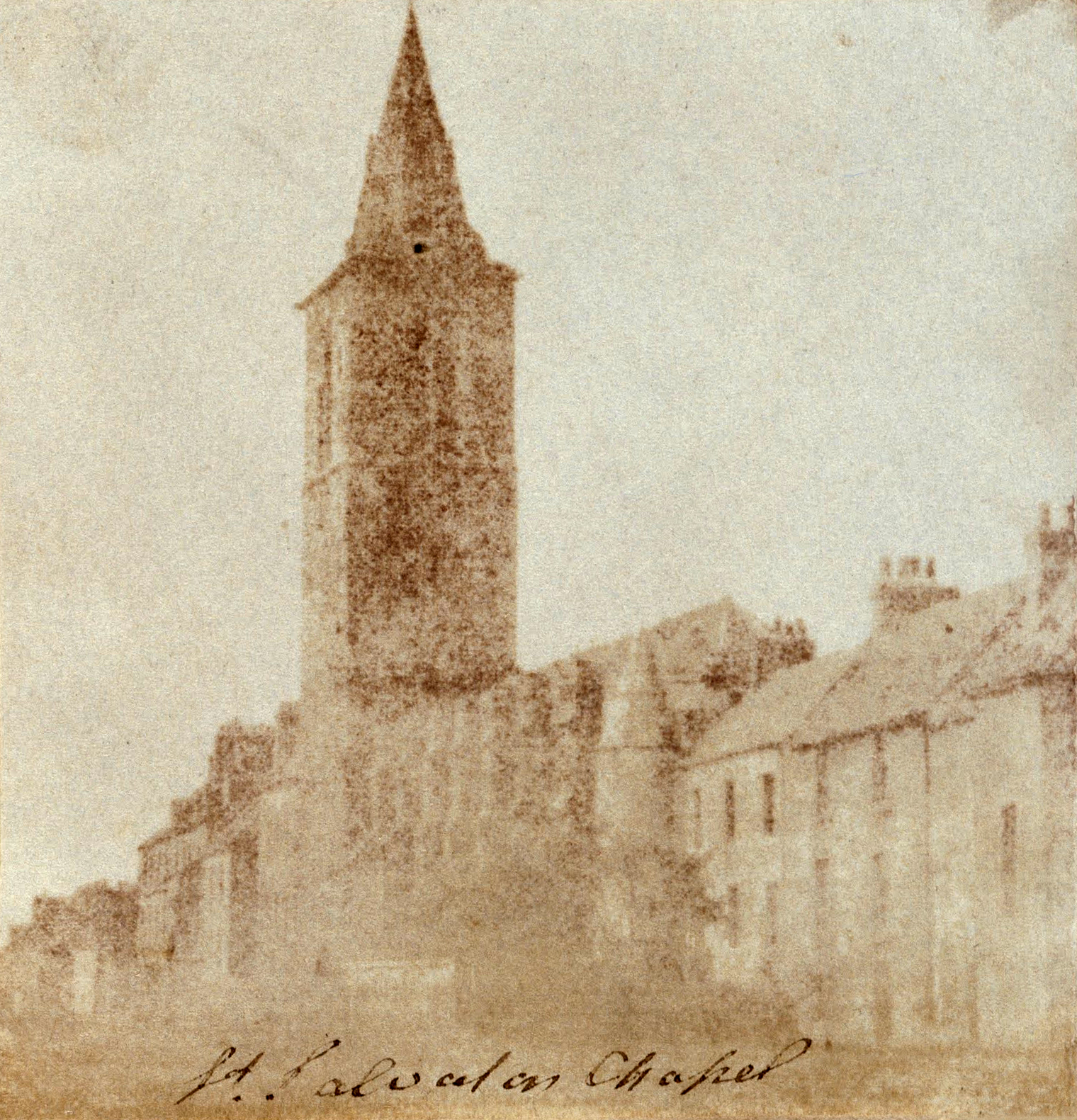 St. Salvator's College Chapel from the Southeast. From J. Paul Getty Museum.